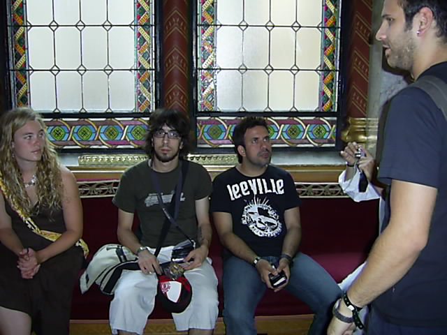 Yagmur Sarigül of maNga and manager Hadi Elazzi in the Parliament of Hungary, August 2006.